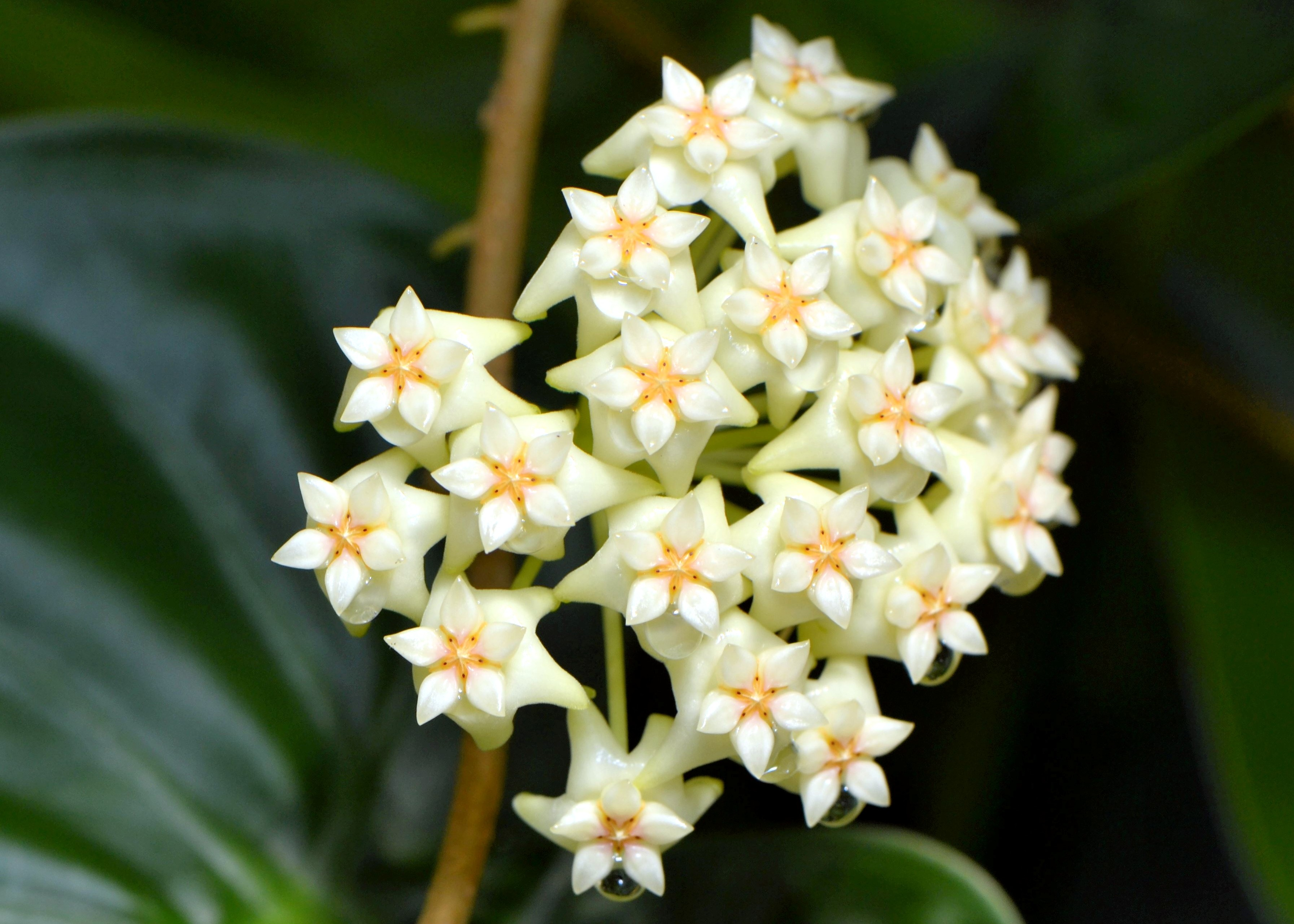 Marie Selby Botanical Gardens - Hoya shepherdii